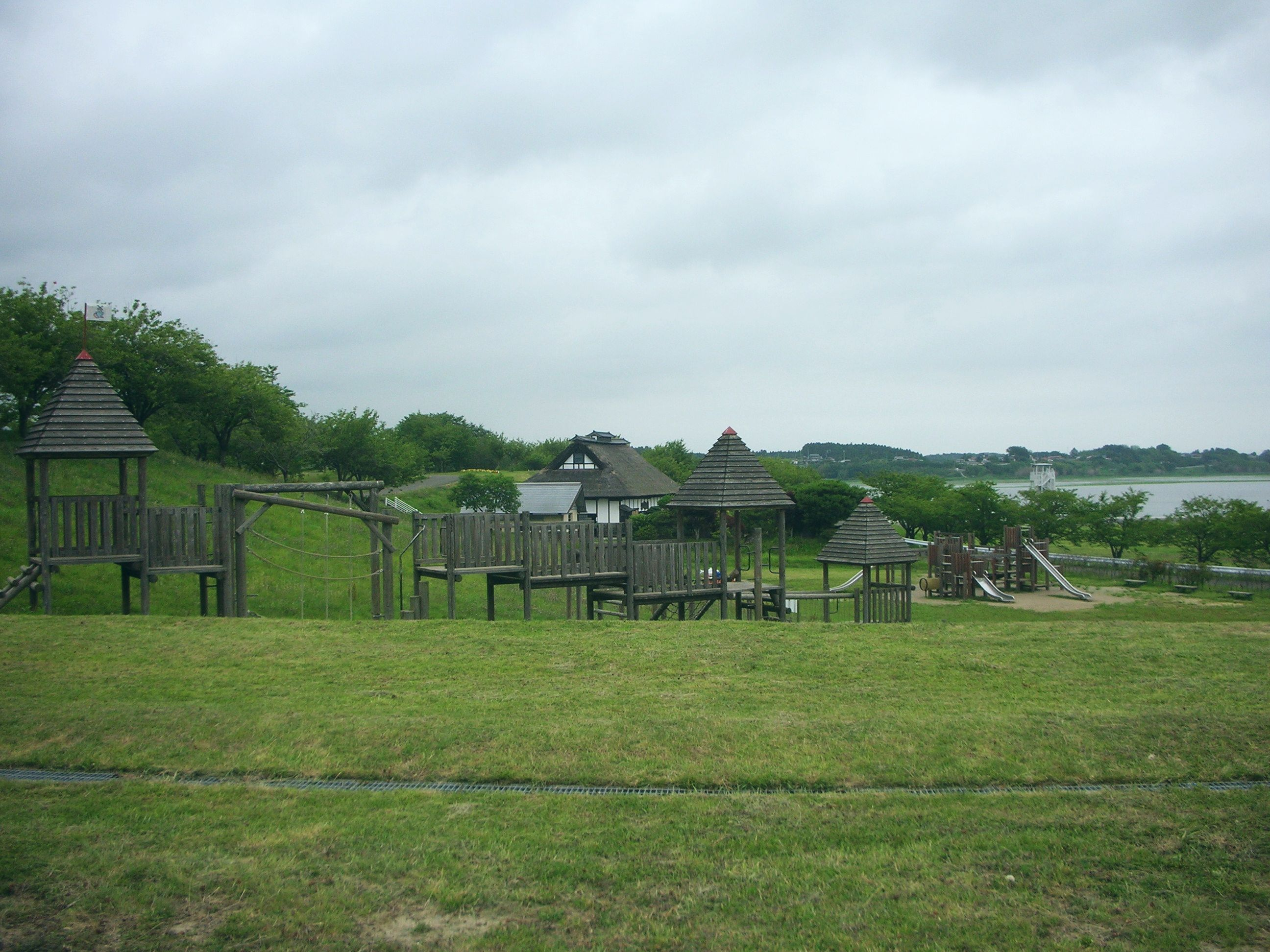 Playground at the Naganuma Futopia Park in Tome City, Miyagi Prefecture, Japan